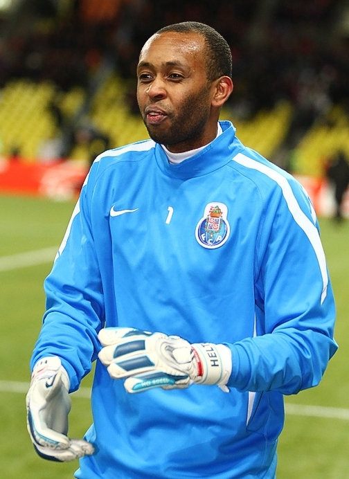 Helton in action for F.C. Porto